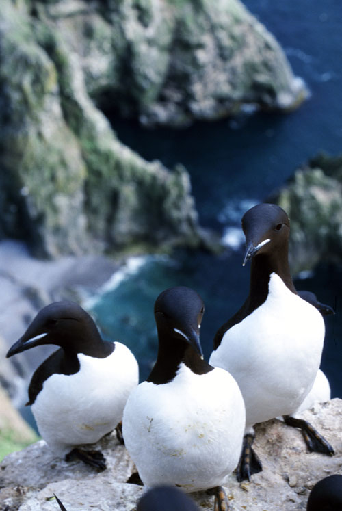 Brünnichs guillemot at bird cliff Stappen, southern Bjoernoeya.